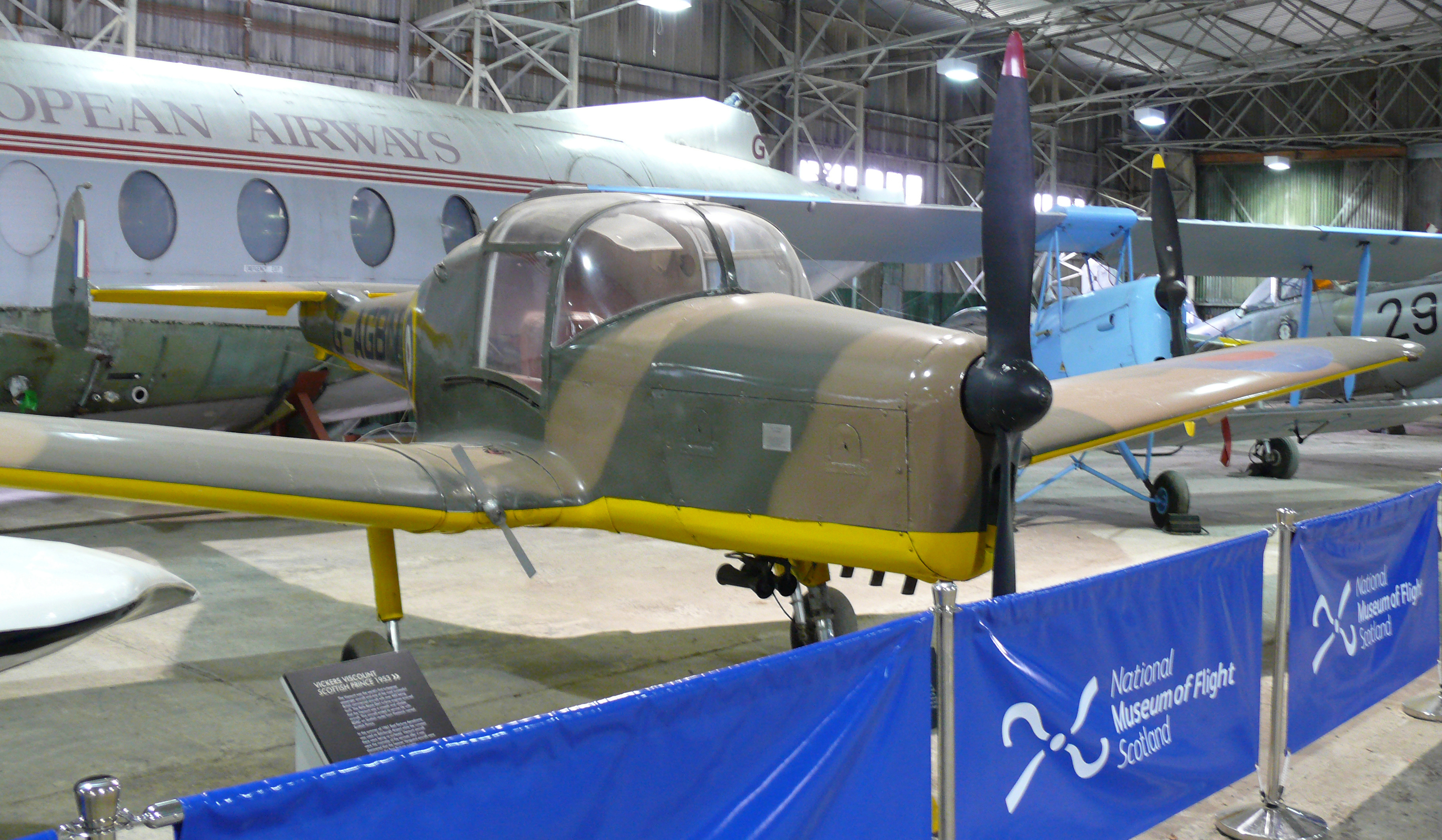 =General Aircraft GAL.42 Cygnet II, a 1930s British single-engined training or touring aircraft,, in the National Museum of Flight in East Fortune, East Lothian, Scotland.